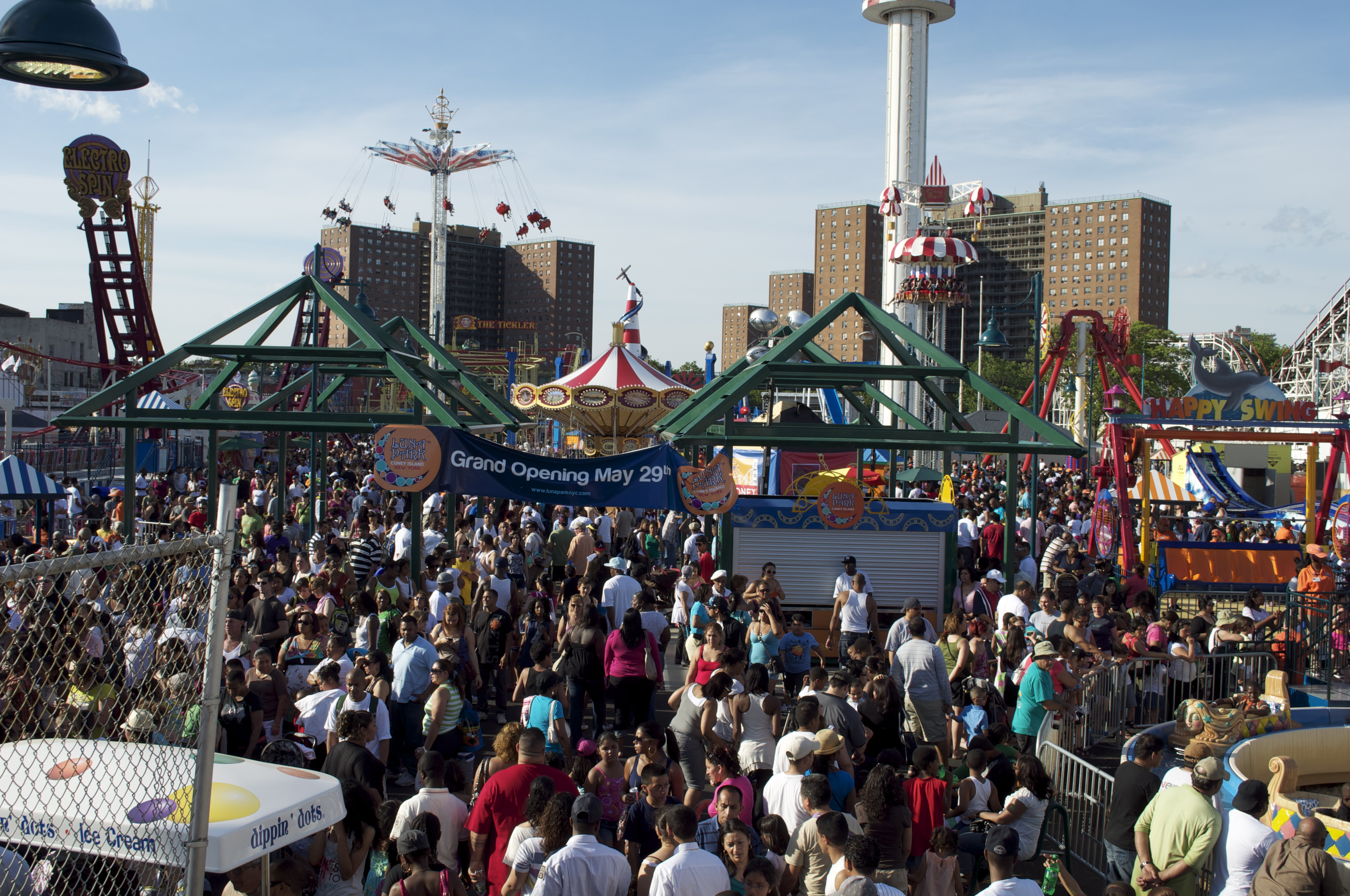 Coney Island's Luna Park, as seen from the Boardwalk, during its opening weekend in 2010.